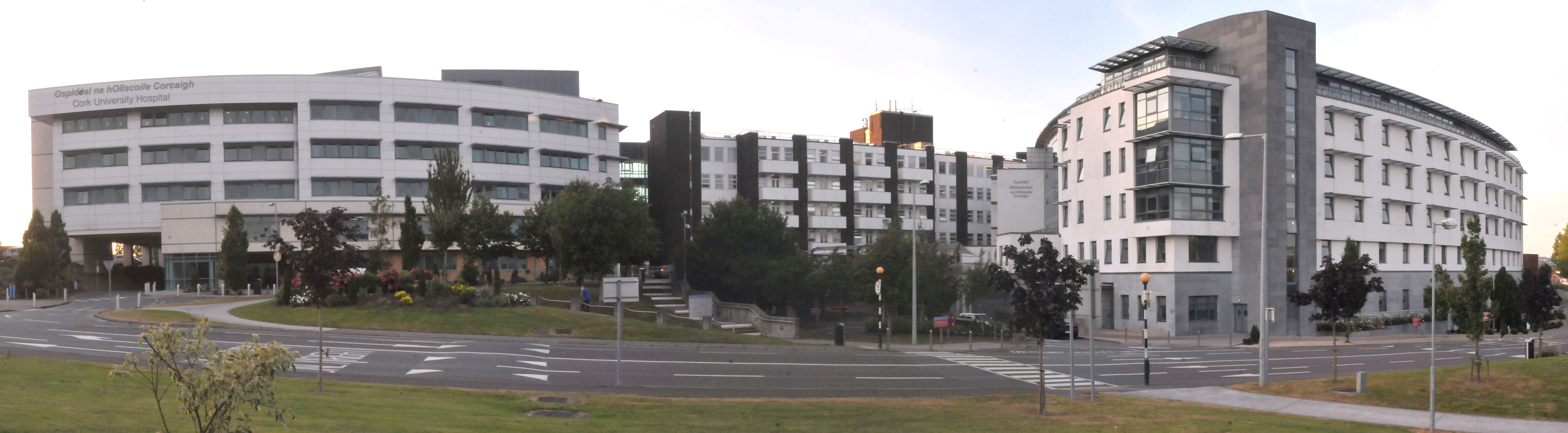 Cork university hospital 2017 stitch